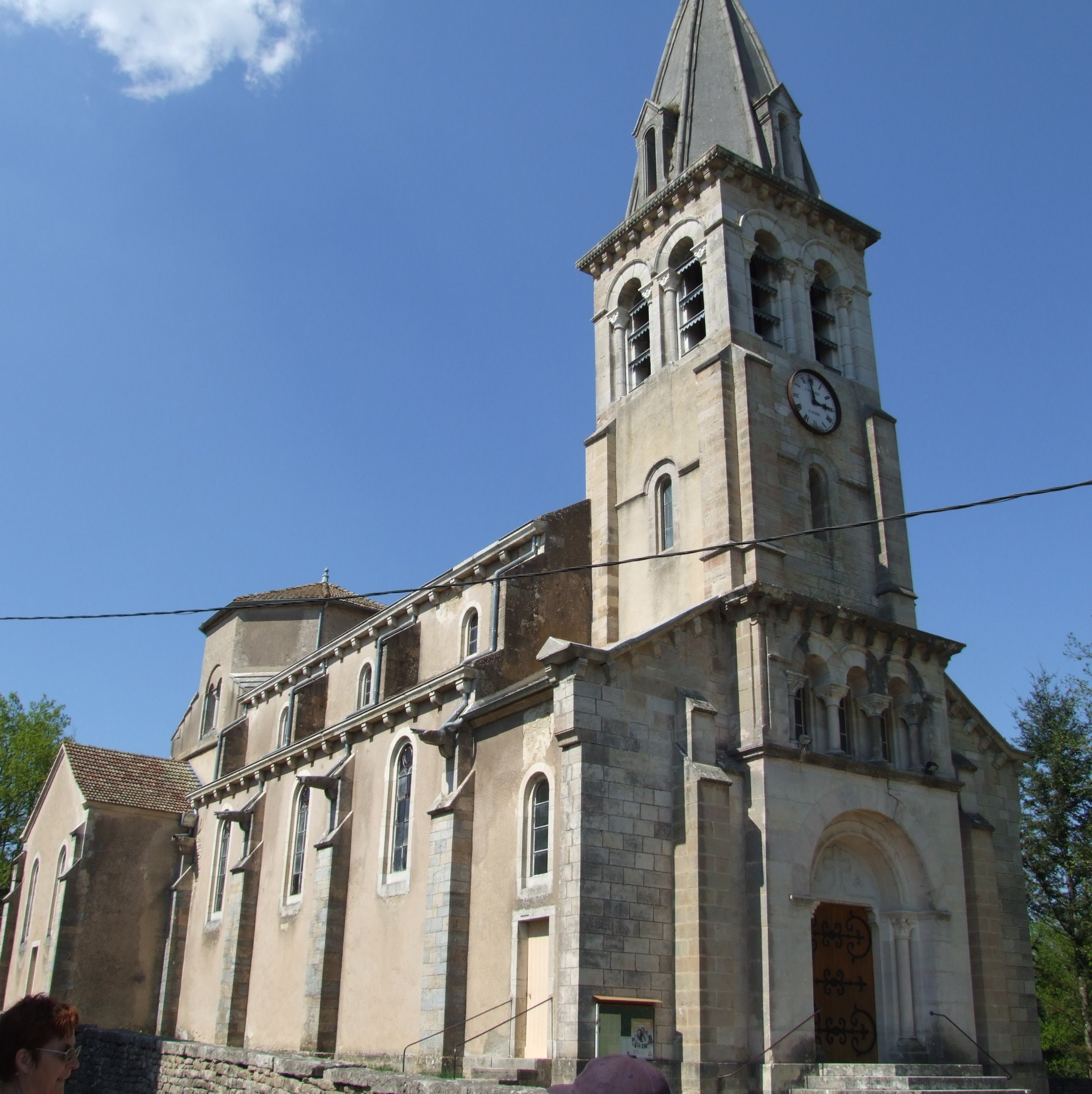 Burgundy, FRANCE